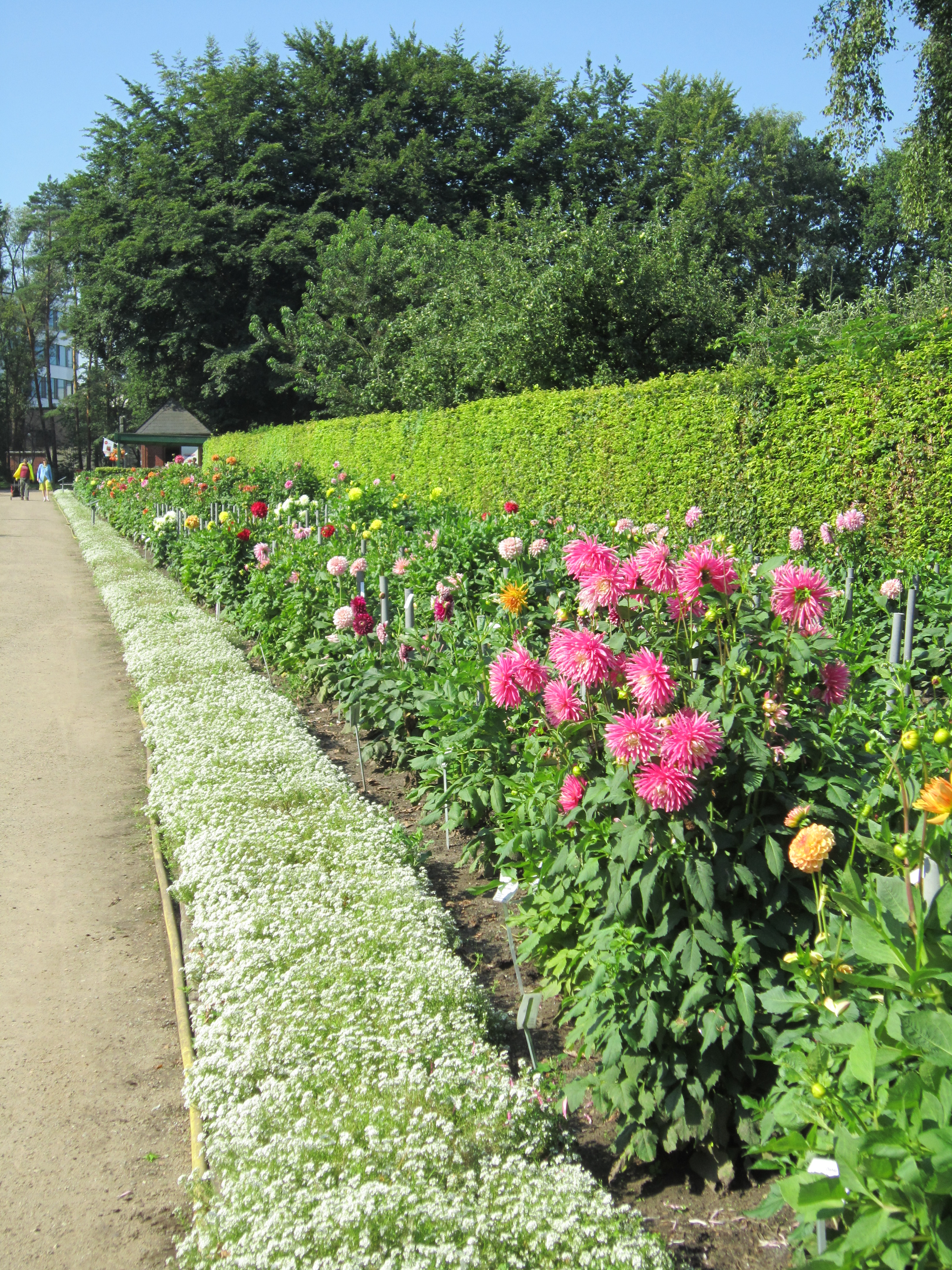 Entrance of the Dahlia Garden in Hamburg